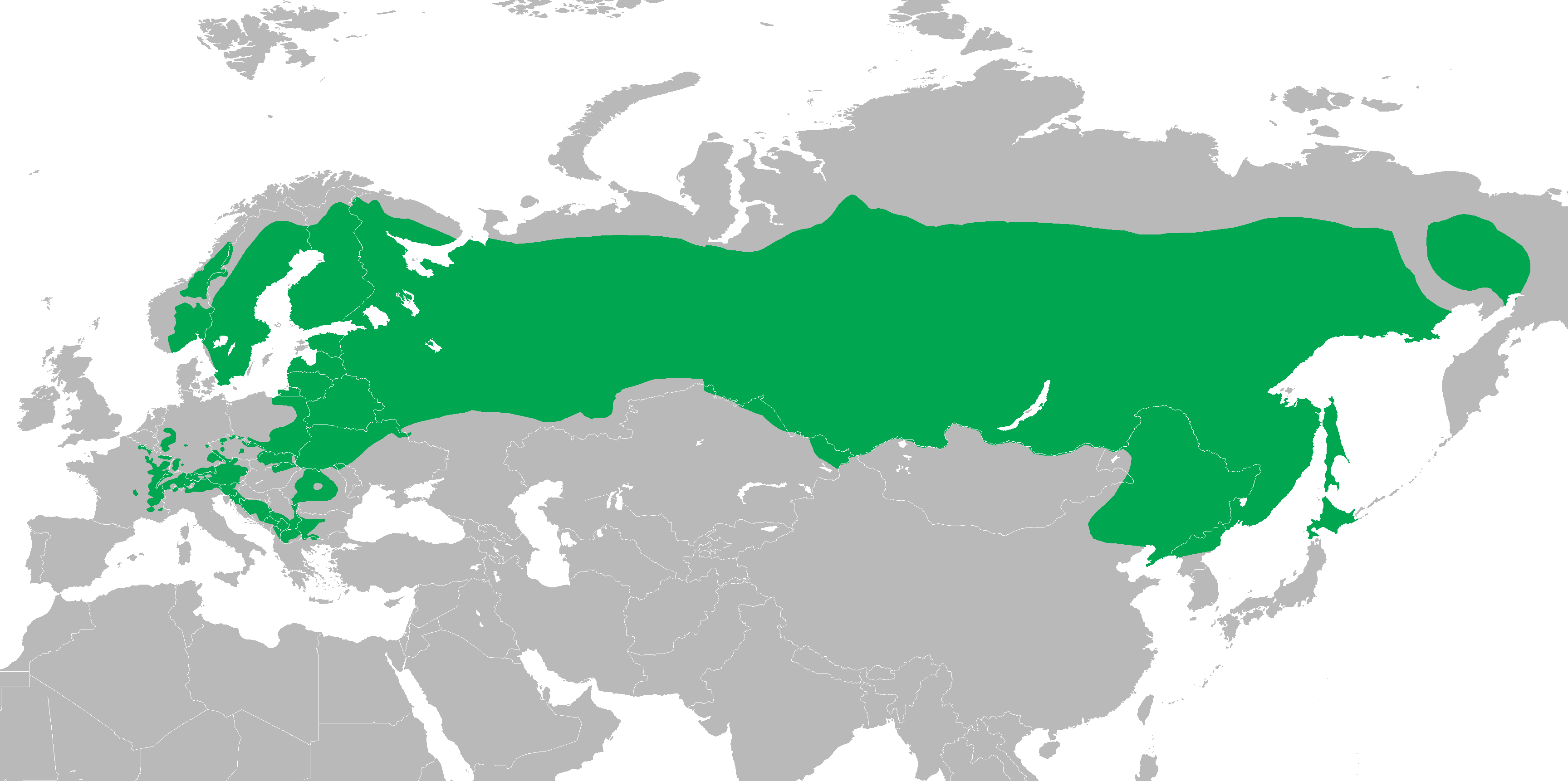 Hazel Grouse (Tetrastes bonasia) distribution map